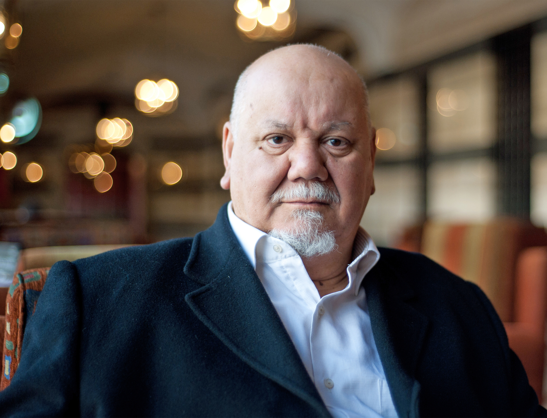 Photography of Yahia Gouasmi, President of the Anti Zionist Party (France).